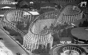 Rye Playland's Airplane Coaster aerial view with the Derby Racer to its right under a pavilion.